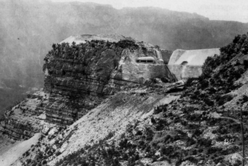 Fort Valmorbia in the Vallarsa Valley (Italy)